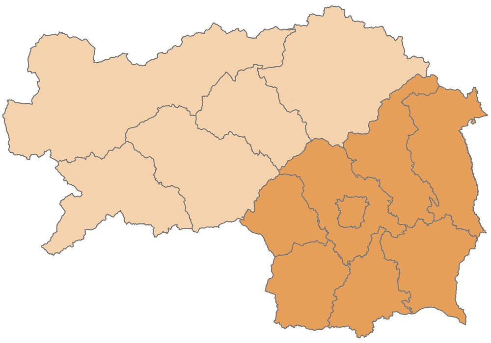 Map of the Austrian State Styria, highlighting (former) Middle Styria